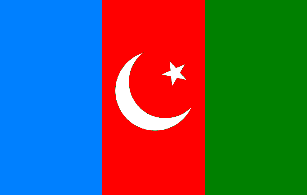 jamot qoumi movement (Jamote_Qaumi_Movement) flag